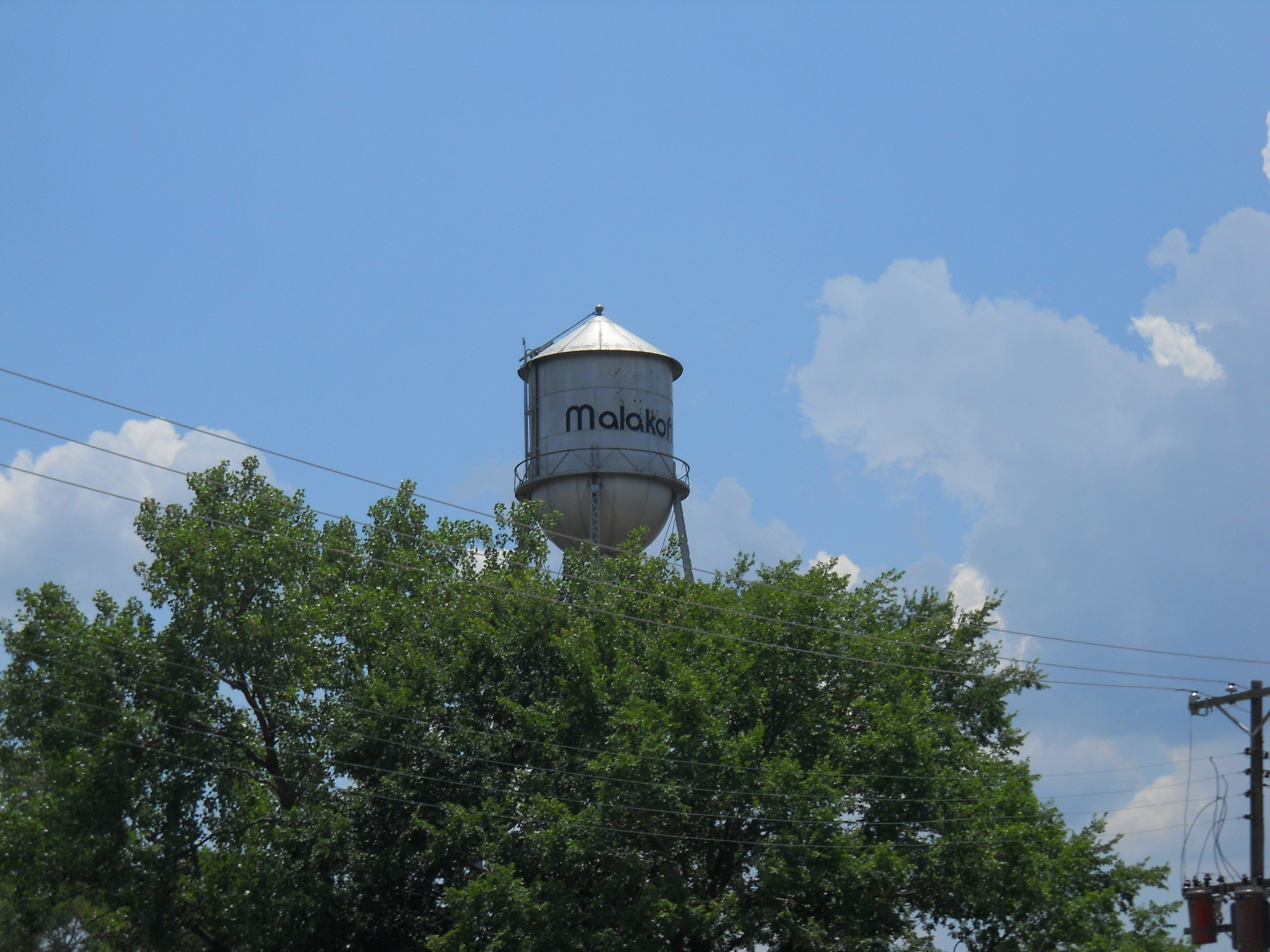 The Malakoff water tower.